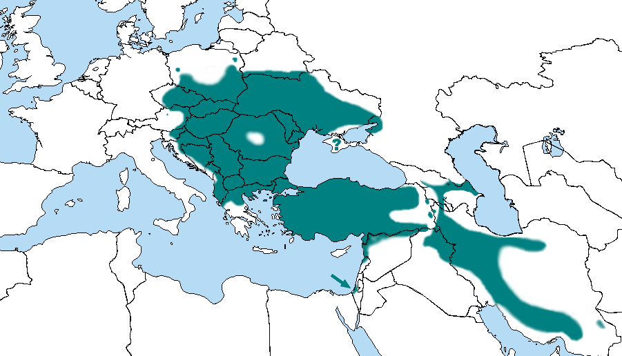 Distribution map of Syrian Woodpecker (Dendrocopos syriacus)